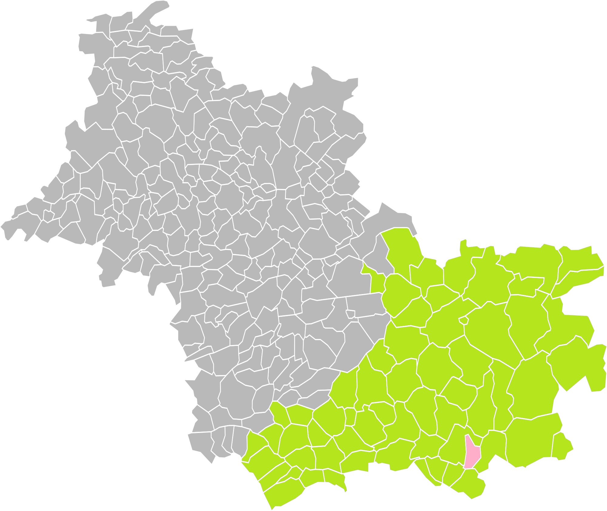 Location of the commune of Mennetou-sur-Cher in the arrondissement of Romorantin-Lanthenay (Loir-et-Cher)